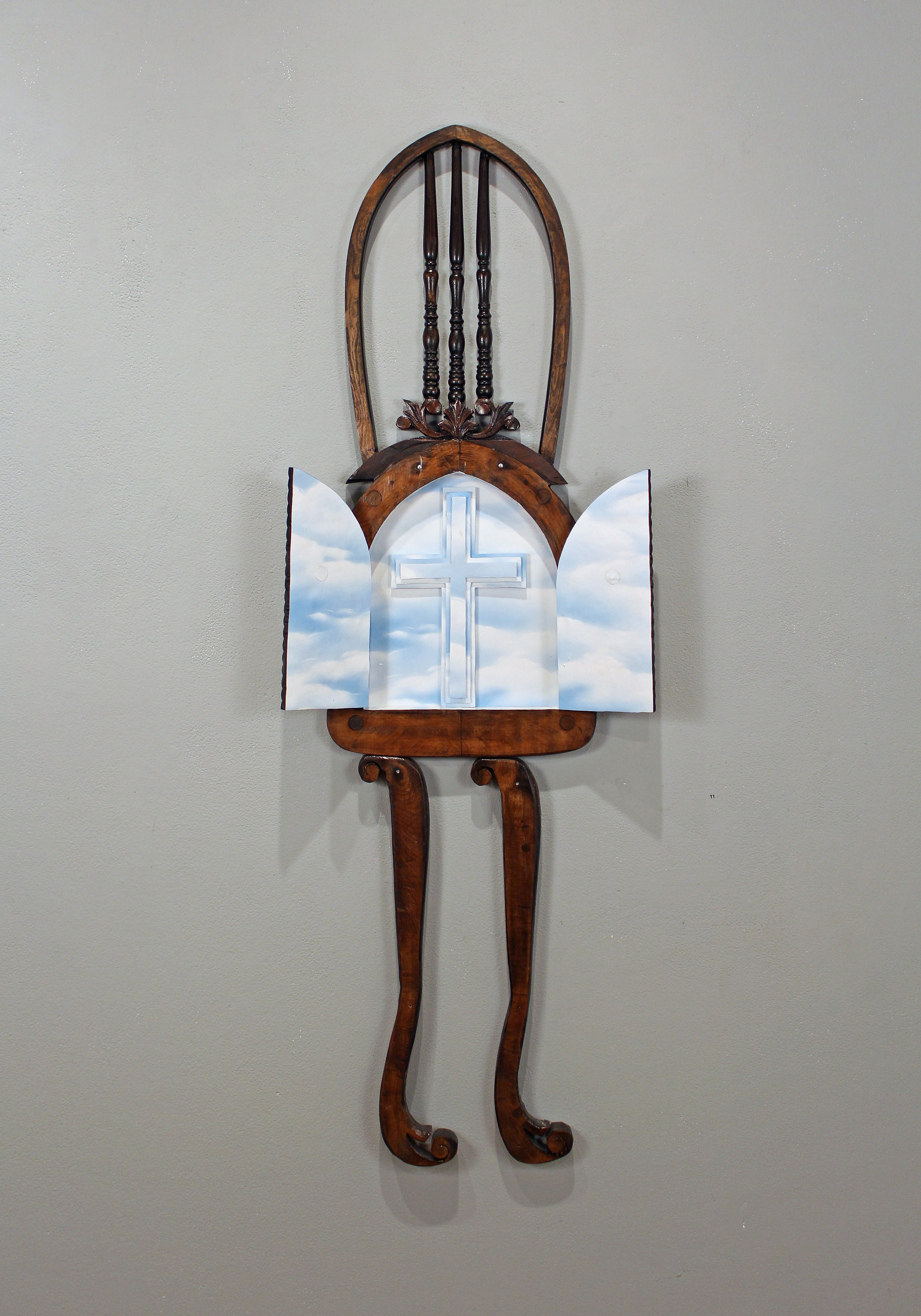 Photo of "Chapel Temple", a piece by Margaret Wharton